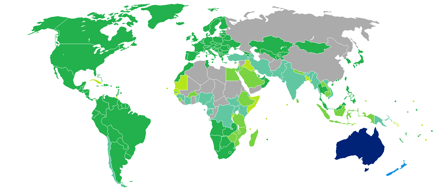 Australian visa requirements Australia Trans-Tasman Travel Arrangement Visa free access Visa issued upon arrival Electronic authorization or online payment required / eVisa Both visa on arrival and eVisa available Visa required prior to arrival